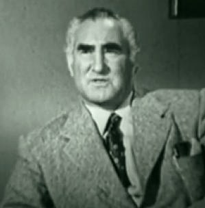 Tudor Owen in Perils of the Jungle (1953) - cropped screenshot